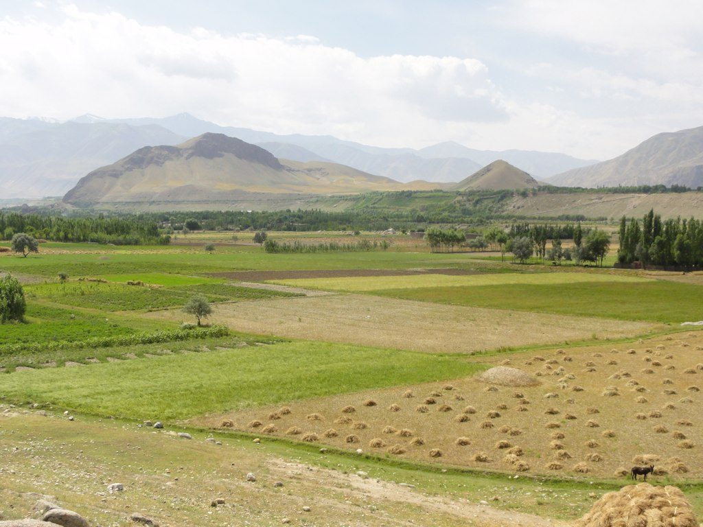 On the way to Baharak in Badakhshan province of Afghanistan